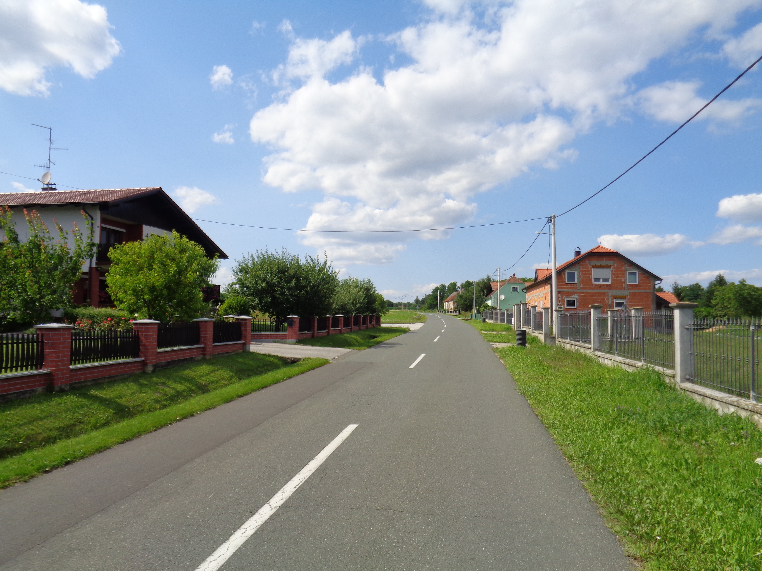 Vukanovec village (Međimurje County, Croatia)